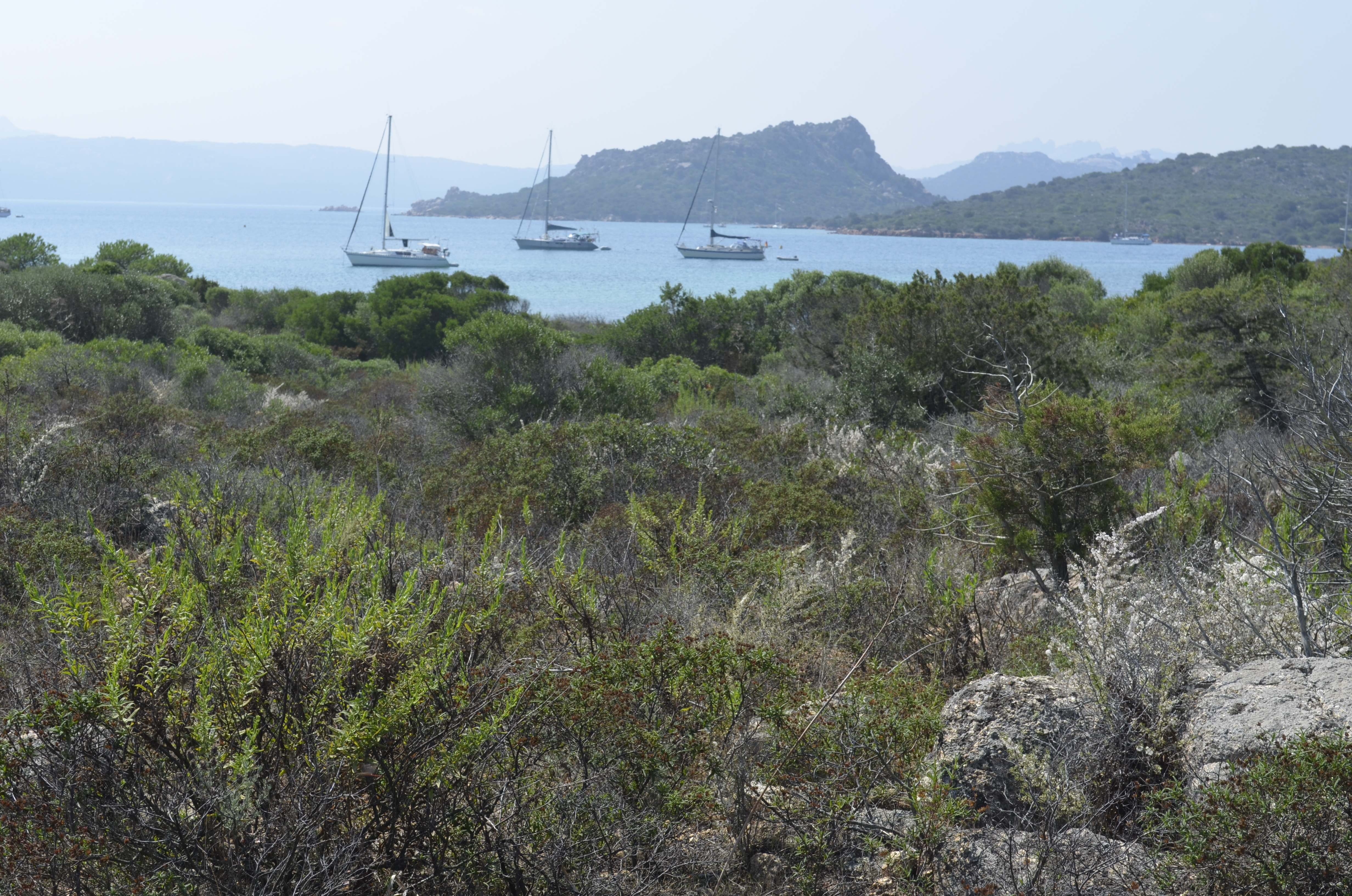 View of Caprera island